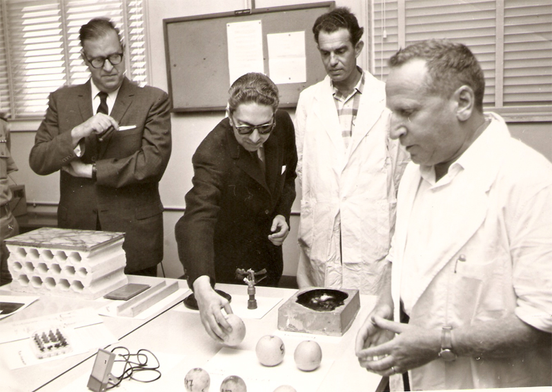 The king of Nepal, Mahendra Bir Bikram Shah Dev, in his visit to the Plastics Research Lab at the Weizmann Institute of Science, Israel, in 1958. From left to right: Israel's foreign minister Abba Eban, Mahendra, Shaul Gassner and Prof. David Vofsi. The picture was taken using Shaul Gassner's camera. Shaul was working at the Plastics Research Lab at the time of Mahendra's visit. He agreed to release this photo under the Creative Commons Attribution ShareAlike License version 2.5. He also uploaded it to his Flickr album ( under the same license.